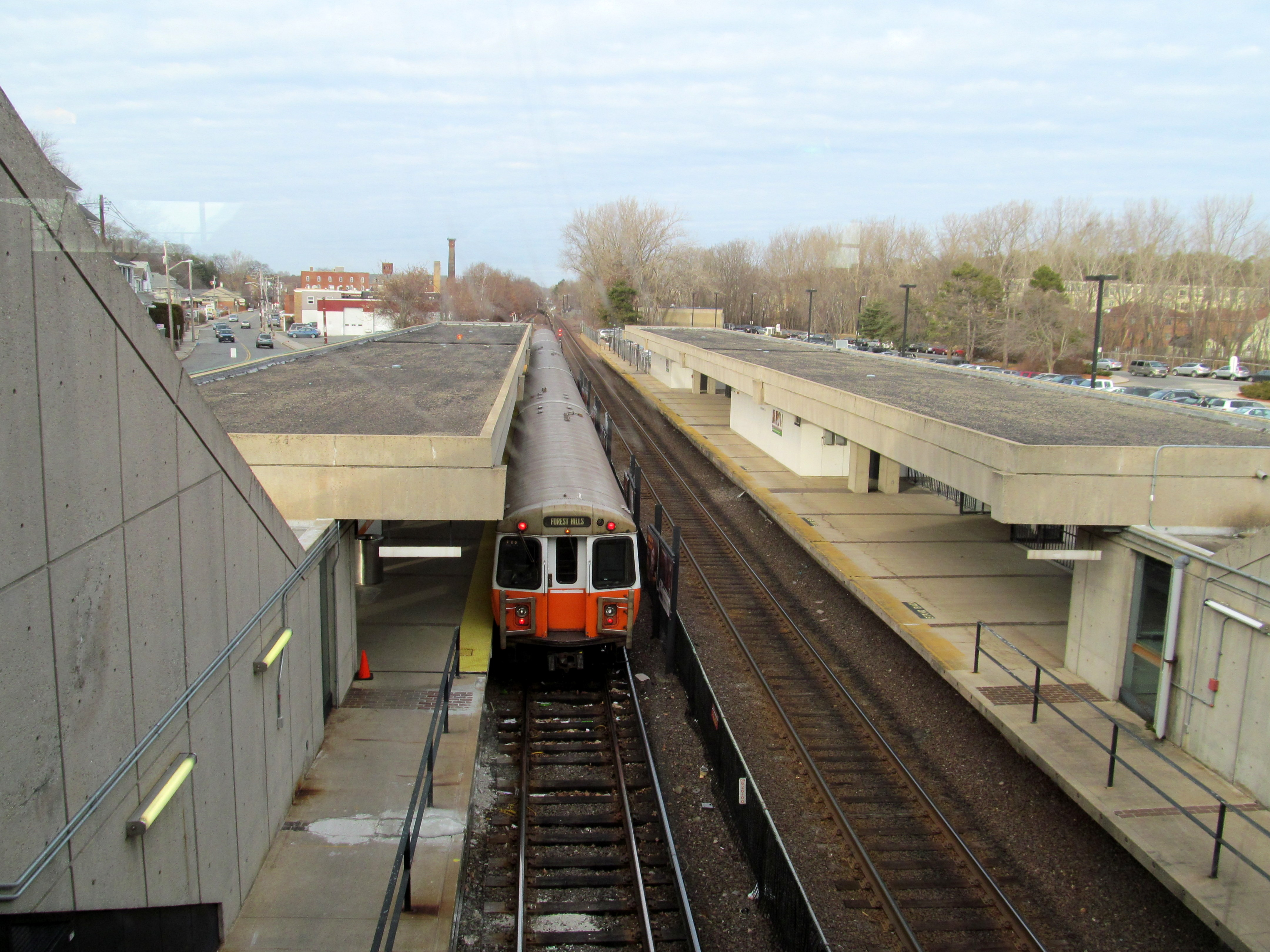 Oak Grove station, viewed from the fare lobby. The Orange Line platform is at left, and the (special service only) Haverhill Line platform at right.